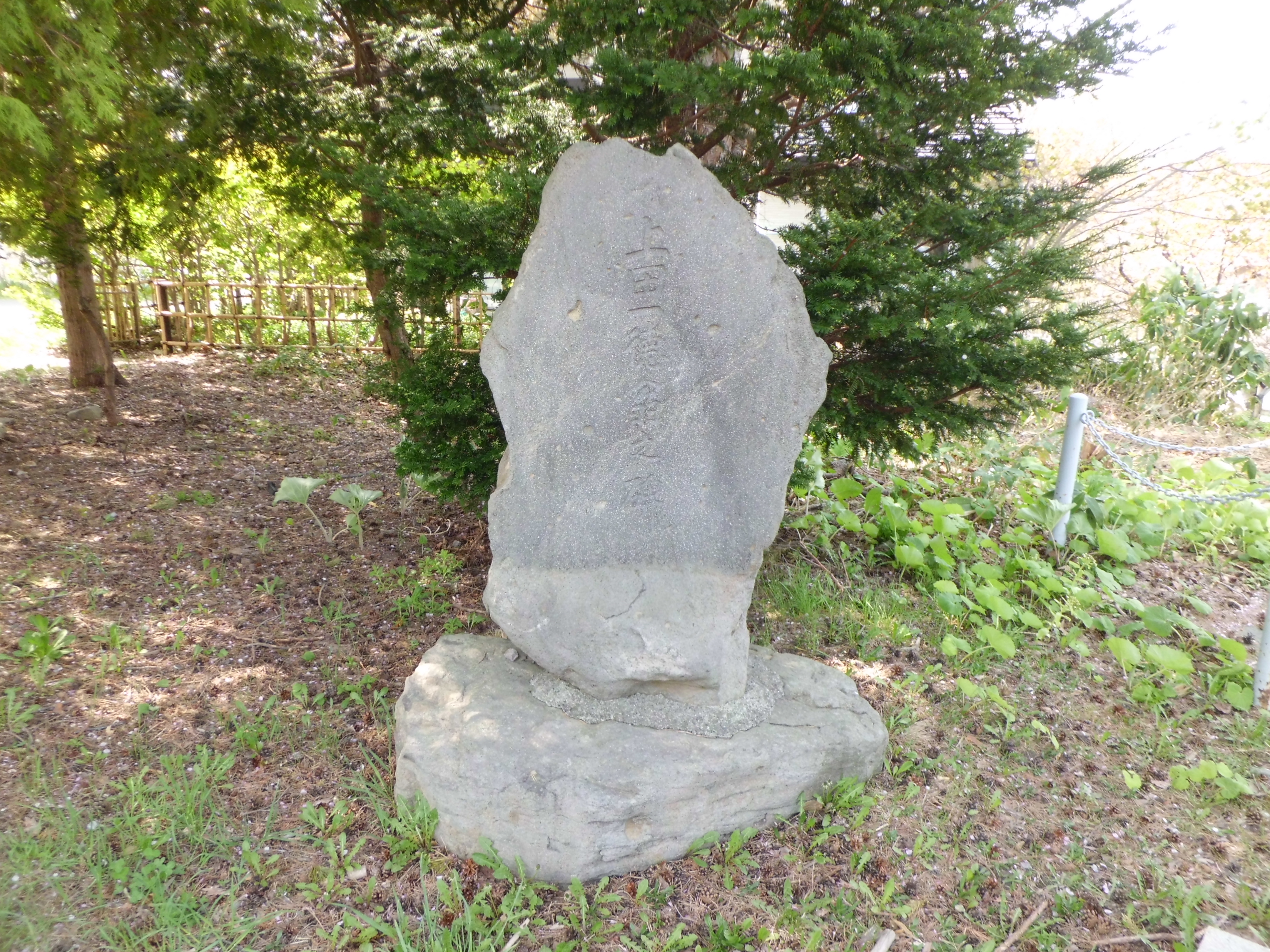 Monument to Manpei Ueda